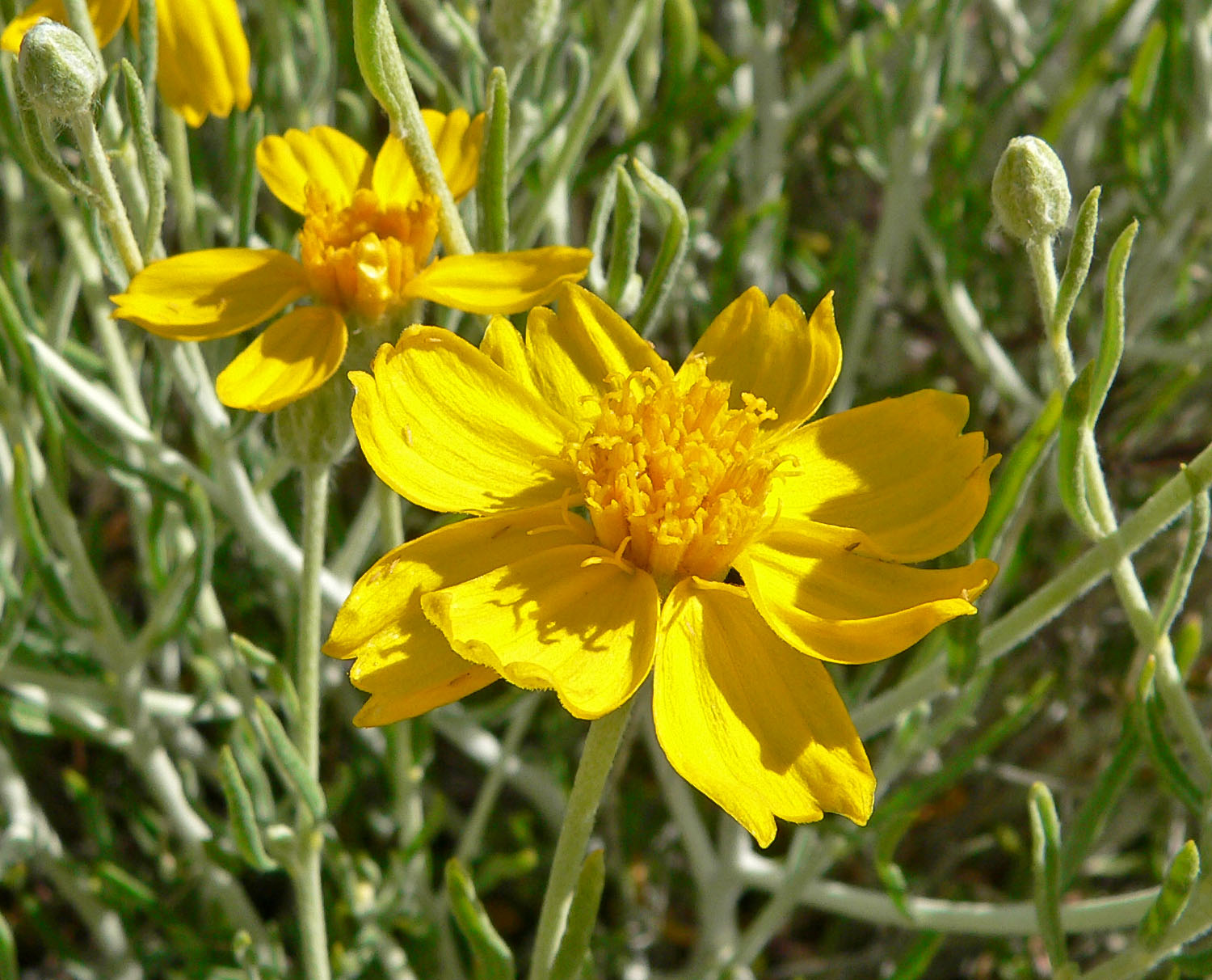 Photo of Psilostrophe cooperi (paper daisy) in Calico Basin west of Las Vegas, Nevada